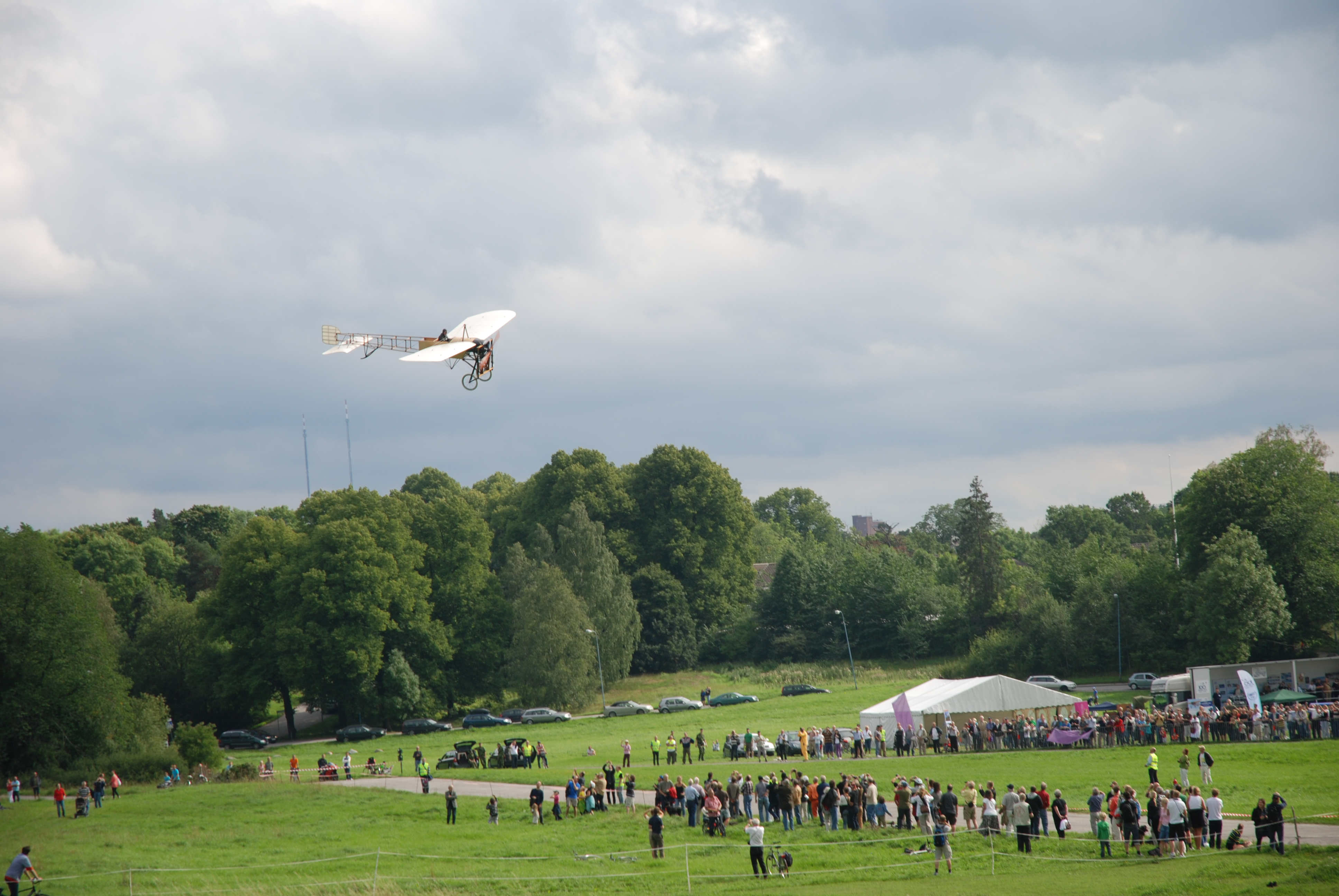 Mikael Carlson´s maiden flight with the restored Blériot XII/Thulin A from 1918, owned bý the Technical Museum of Stockholm since 1926 and never flown in the past. Gärdet in Stockholm 2008-08-21, 100 years after an aeroplane first was flown in Stockholm in 1910 by Swedish flight pioneer Carl Cederström (in a Blériot of the same type).